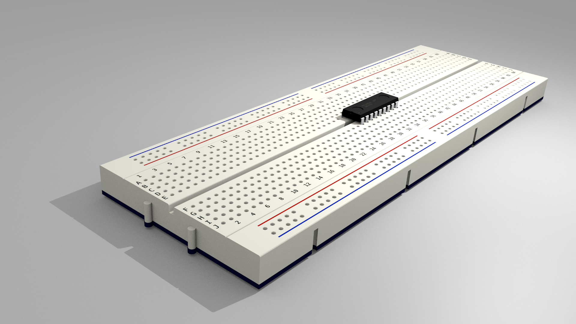 Pic on breadboard (Blender render)